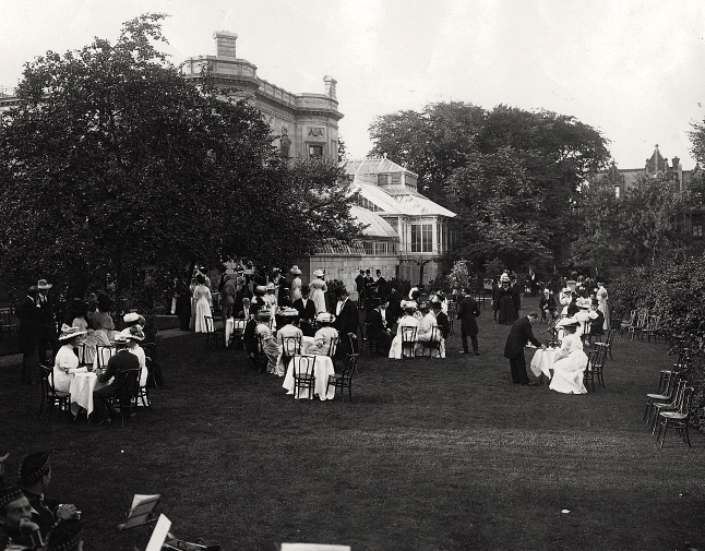 Photograph: Garden party at Mr. Meighen's residence, Montreal, QC, 1908; Wm. Notman & Son; 1908, 20th century; Silver salts on glass - Gelatin dry plate process; 20 x 25 cm